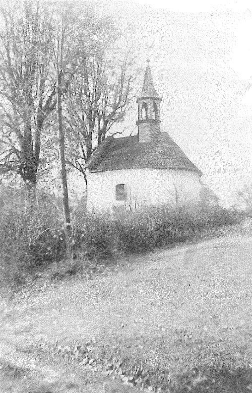 Střížovice chapel